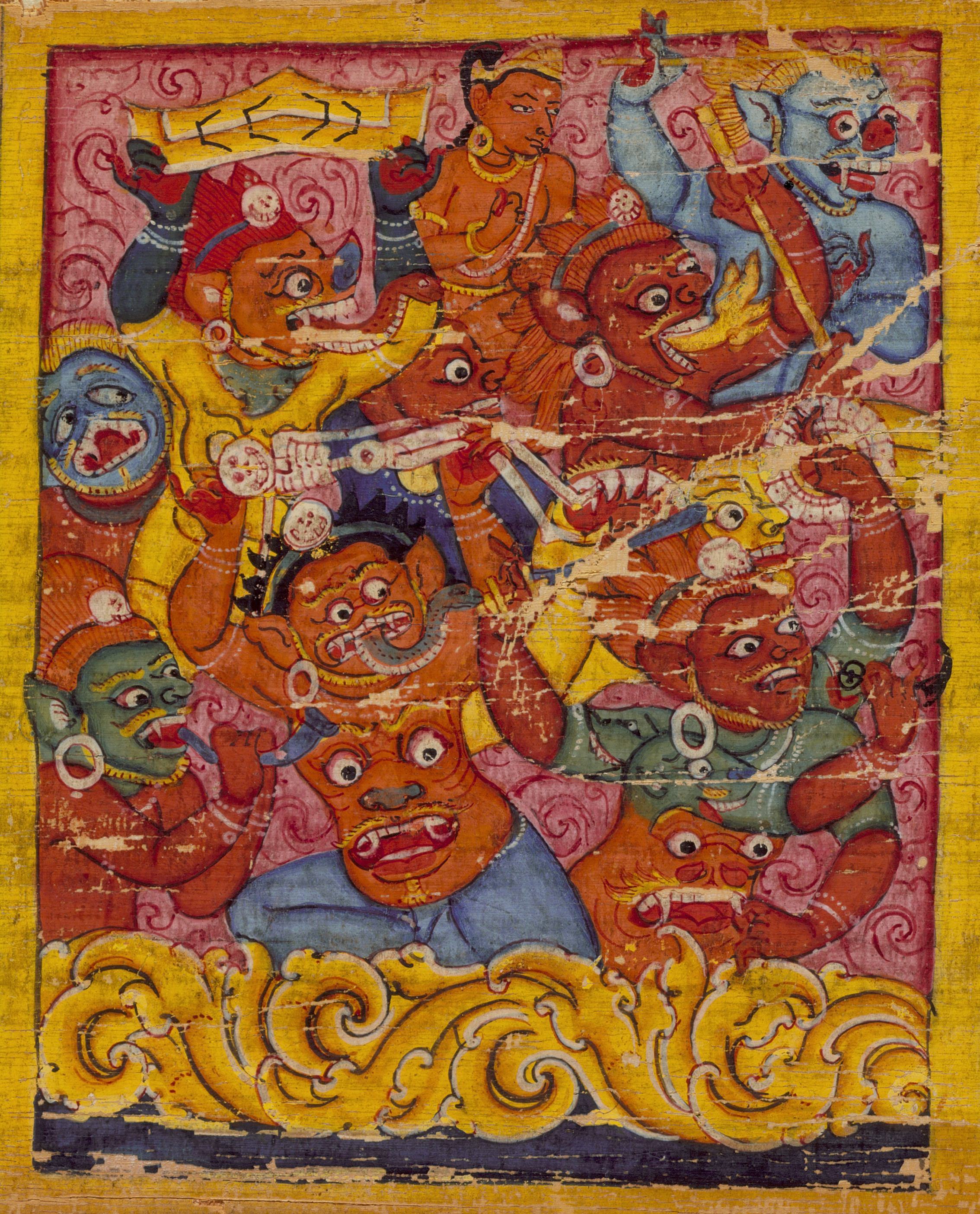 Nepal, Himalayas. Mara's Retinue, Folio from an Astasahasrika Prajnaparamita (The Perfection of Wisdom in 8,000 Verses), 11th century Book/manuscript